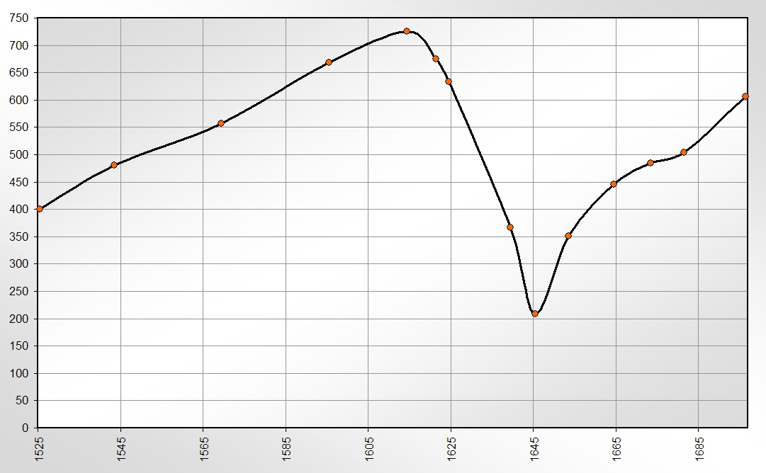 Population statistics of Bad Hersfeld (Hessen, Germany), during Thirty Years' War. Only males with civil rights have been counted